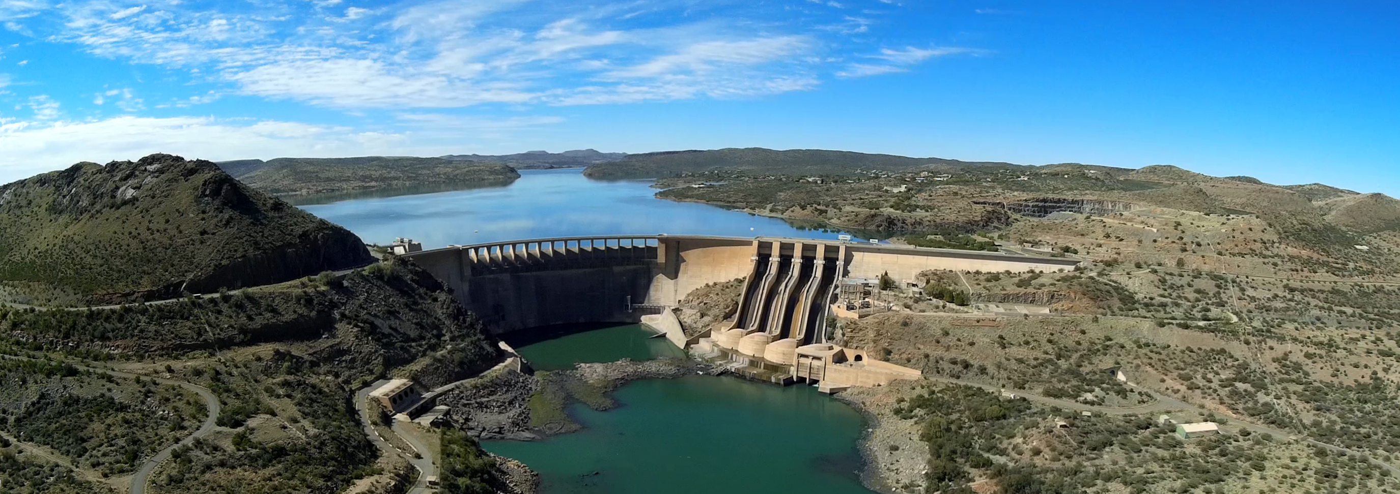 Vanderkloof Dam is the second largest dam in South Africa (by volume). It also has the highest dam wall in the country at 108 m.